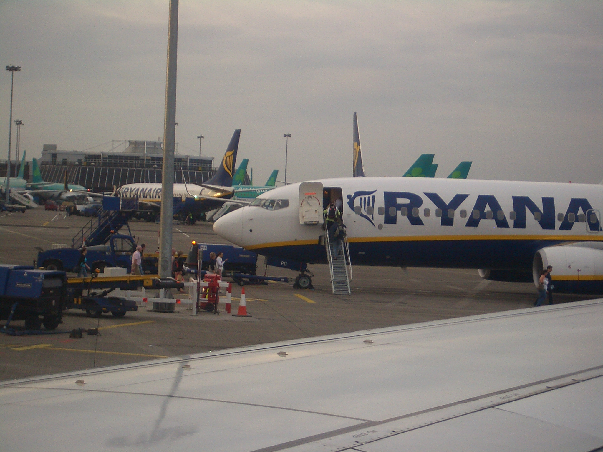 Ryanair planes in Dublin Airport